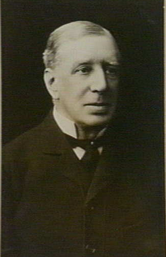 Sir Arthur Havelock, Governor of Tasmania.